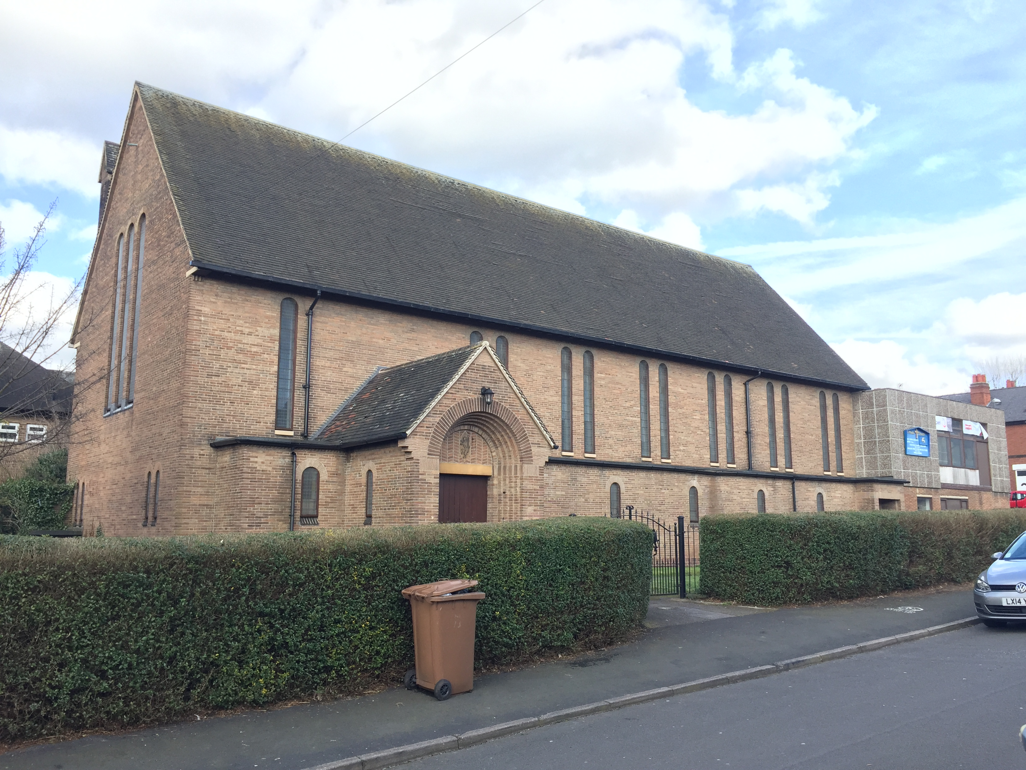 Opened in 1935